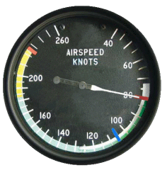 Airspeed indicator multi-engine airplane Part 23